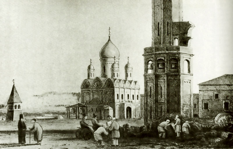 Ivan the Great belltower - destruction of 1812. Lithography by John James, 1813